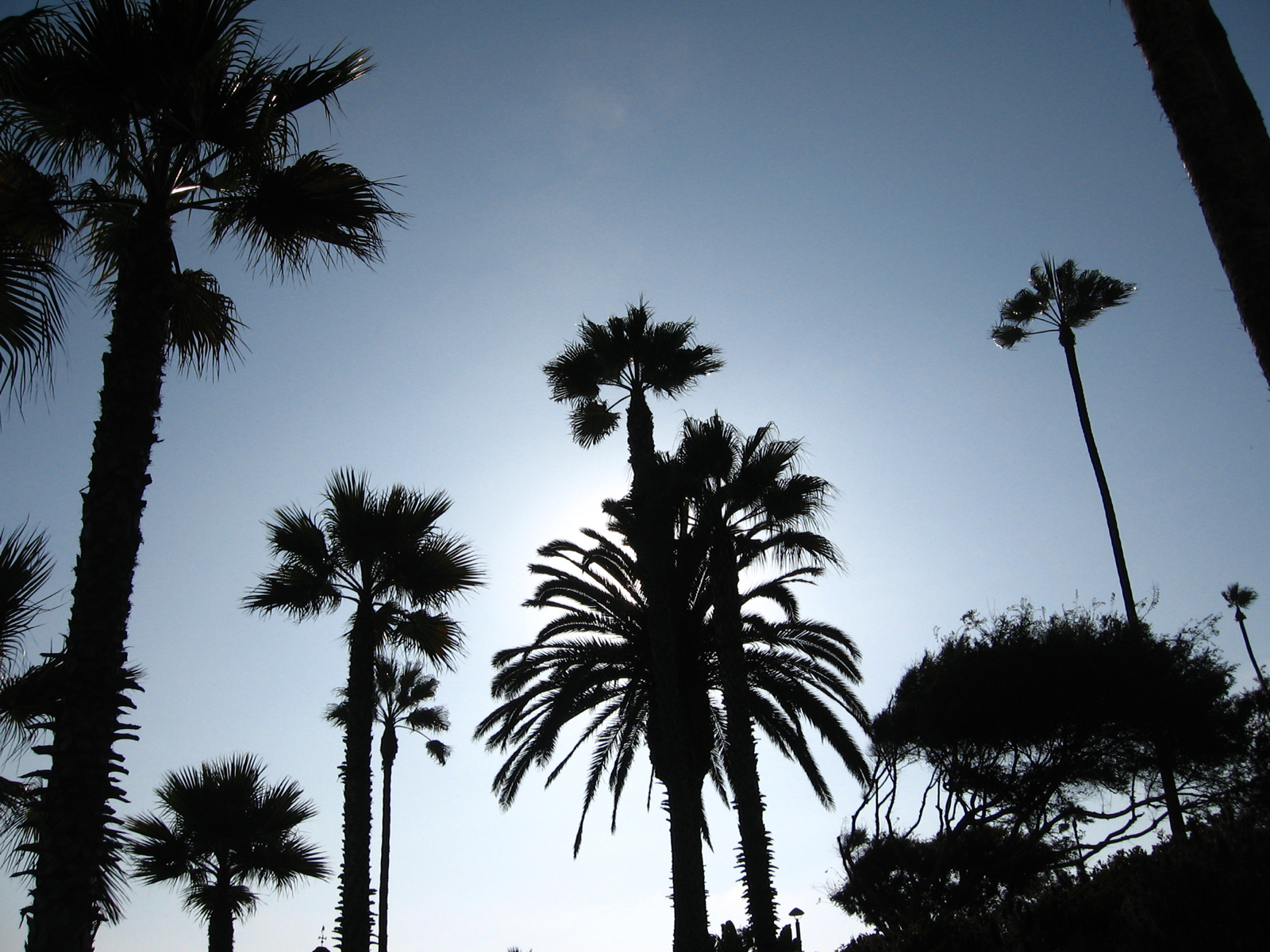 Tall Mexican fan palms (Washingtonia robusta) above a Canary Island date palm (Phoenix canariensis), at Heisler Park in Laguna Beach, Southern California.